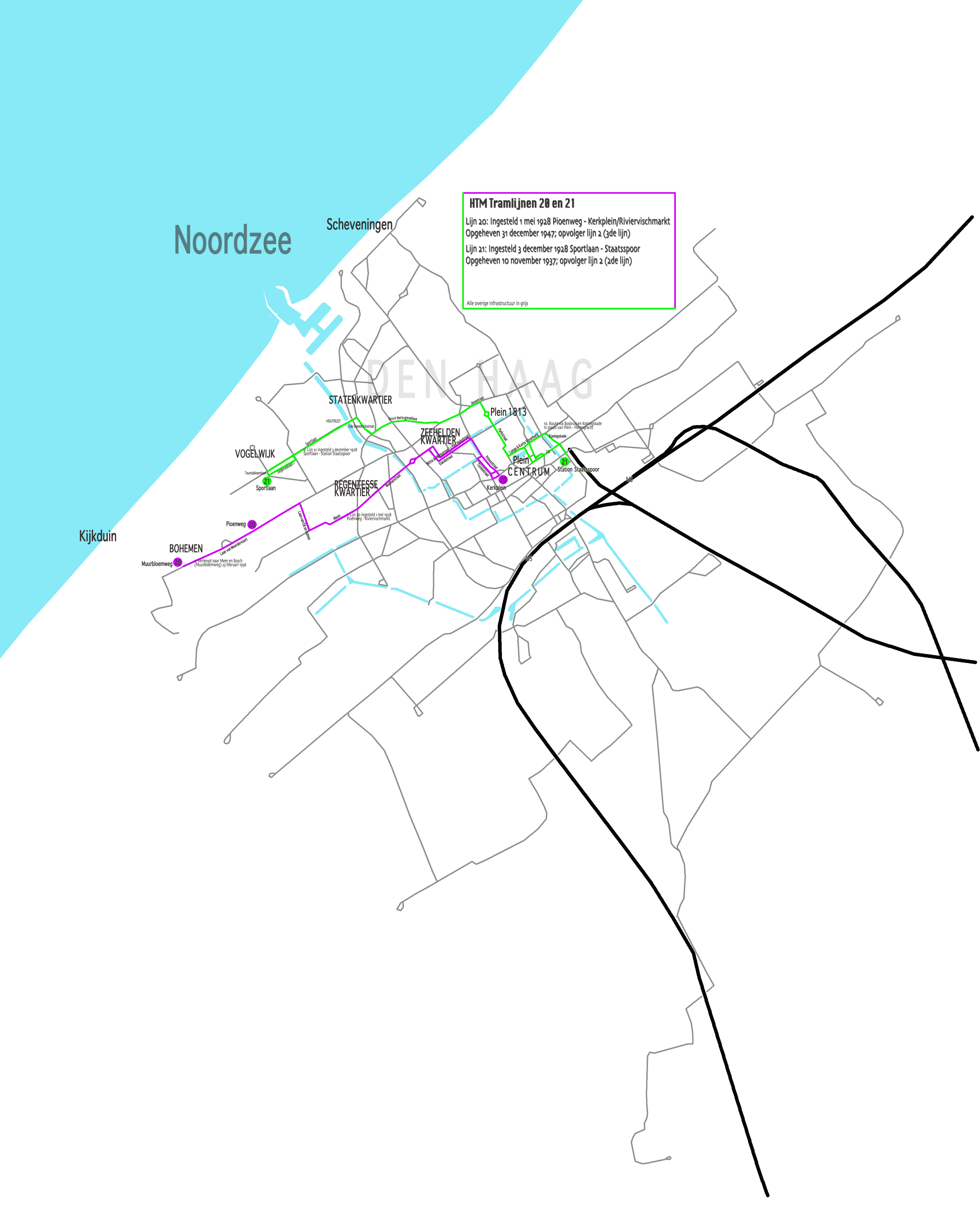 Tram routes 20 and 21, The Hague, their history